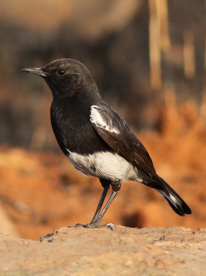 Mountain wheatear or mountain chat - male, Oenanthe monticola, at Suikerbosrand Nature Reserve, Gauteng, South Africa